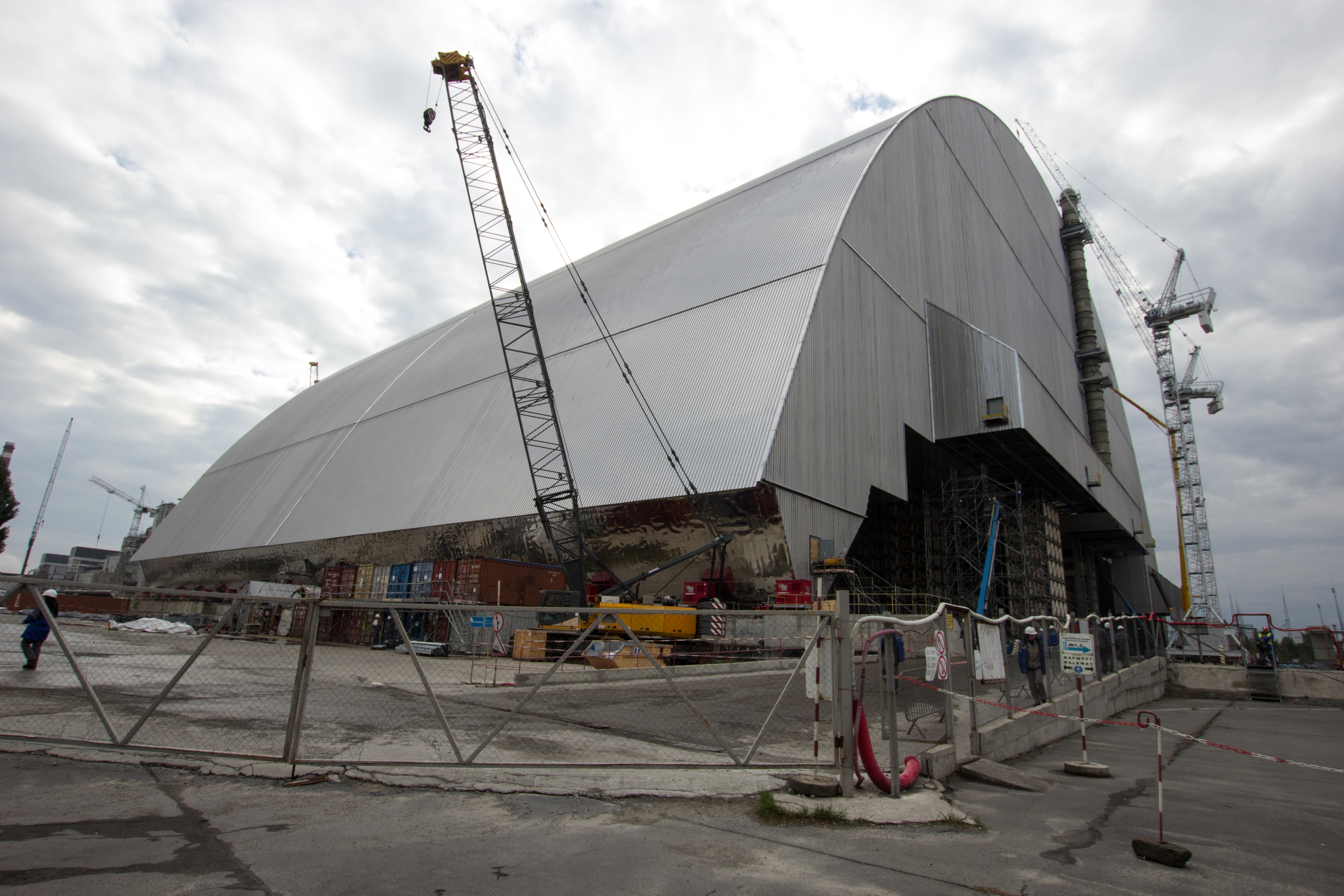 The New Safe Confinement at Chernobyl Nuclear Power Plant nearing completion in October 2016